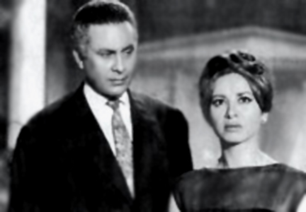 Two Egyptian Actors Mahmoud Mursi and Faten hamama in a movie entitled Al laila Al Akhira ("Last Night") إنتاج عام 1964 الليلة الأخيرة